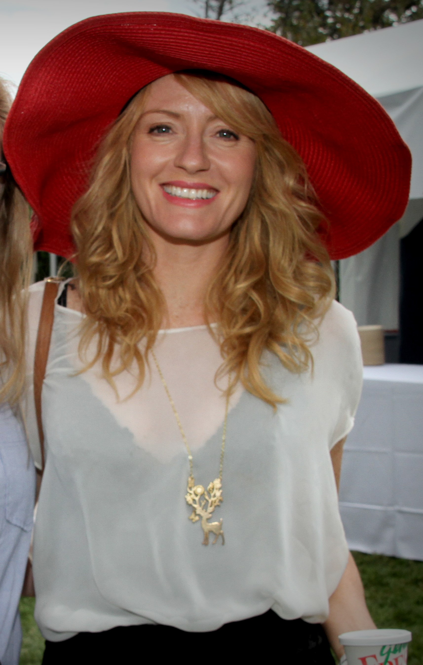 Hélène Joy